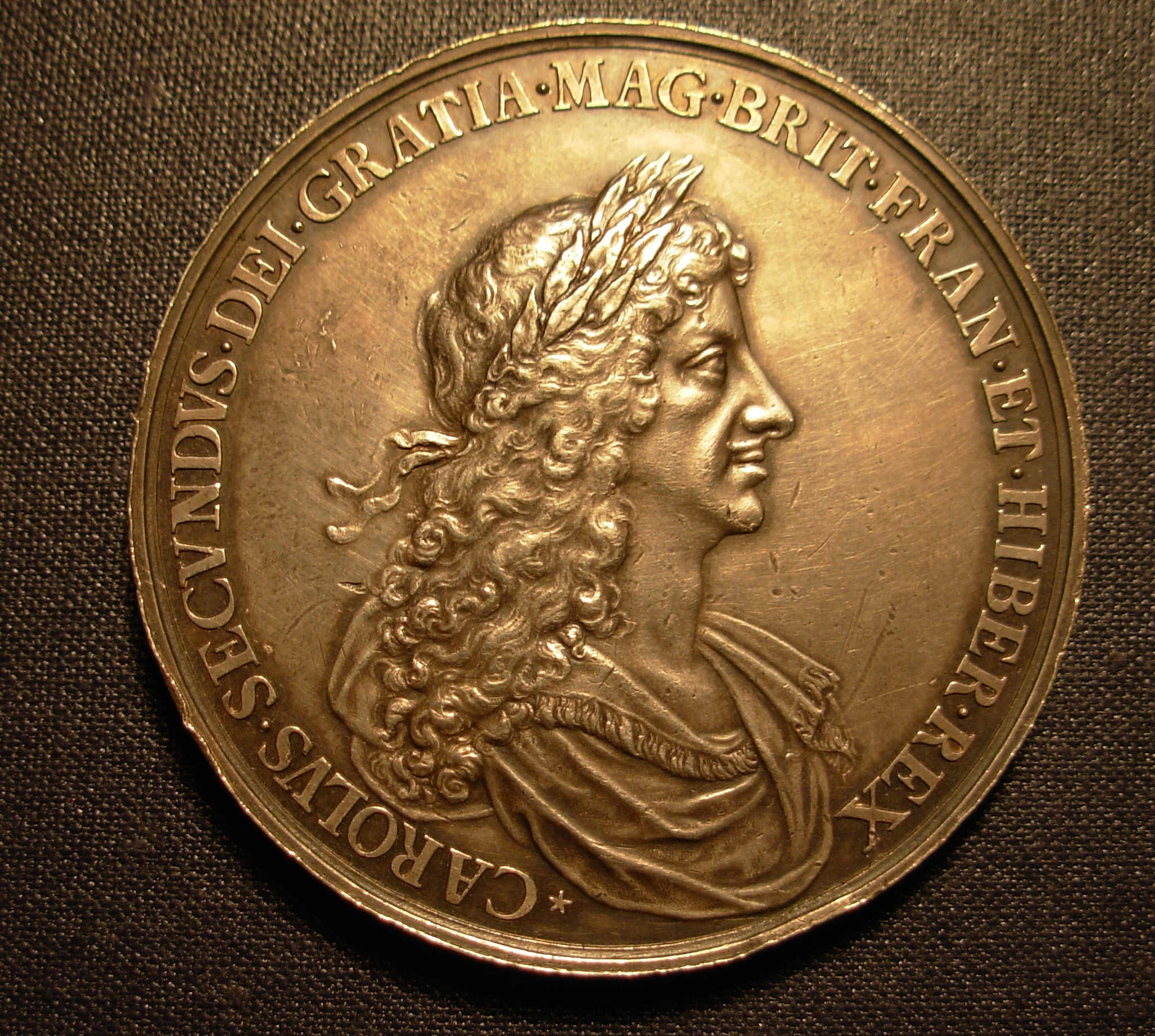 A medal struck in 1667 to commemorate the Second Dutch War, showing Charles II's full titles around the edge. Author: Guy de la Bedoyere.